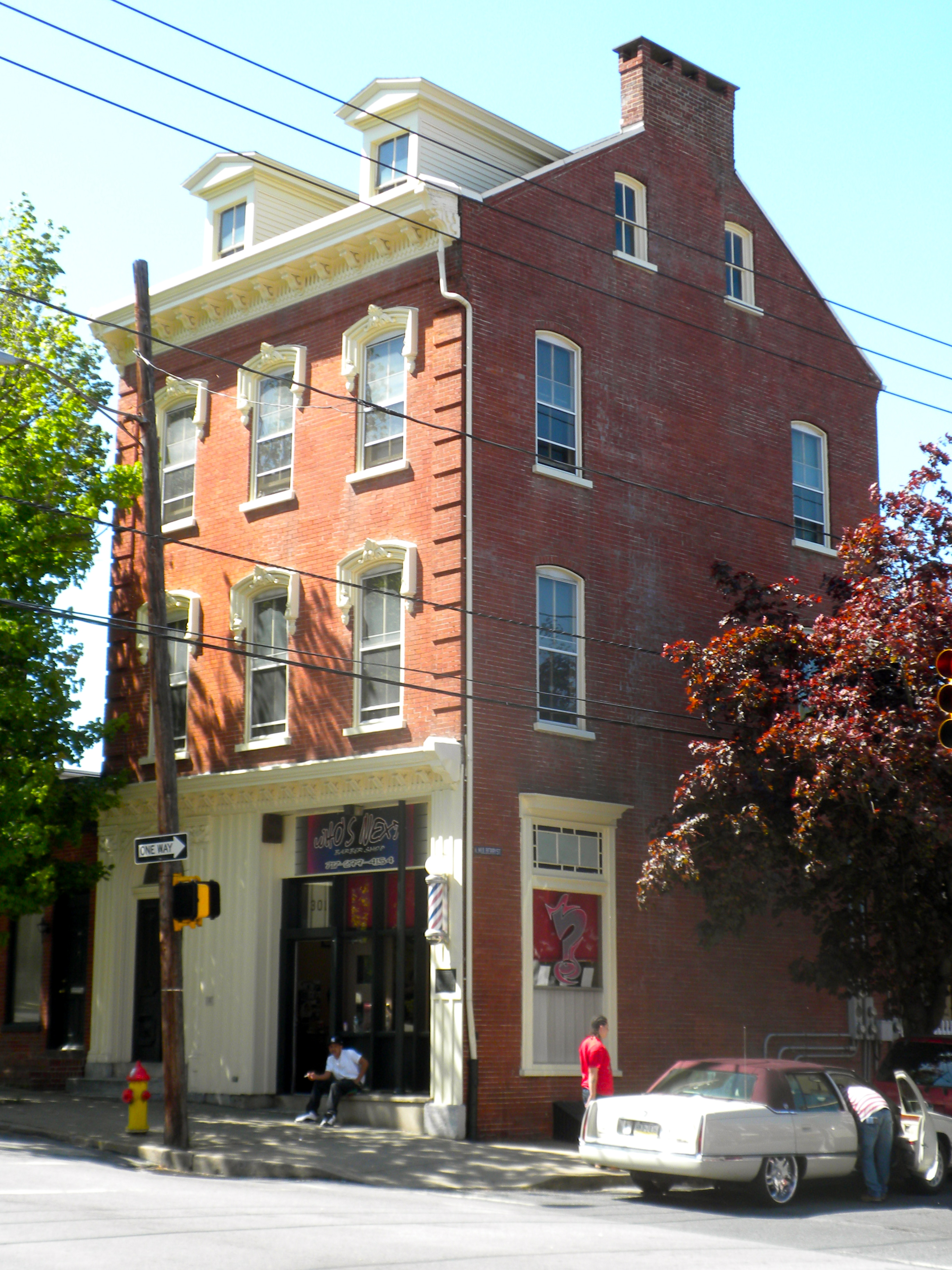 Henry Krauskap House on the NRHP since October 7, 1982. At 301–303 ½ West King Street in the Chestnut Hill neighborhood of central Lancaster (city), Pennsylvania. Now houses the "Who's Next" Barbershop. According to the "NRHP" plaque near the door (visible in photo) the spelling is Krauskopf, which reads in full "Henry Krauskopf House and store Oldest surviving structure for the manufacturing and marketing of cigar boxes and tobacco related products built in 1874 has been placed on the National Register of the United States Department of the Interior" Note that these signs are put up by the owners of the structures, NOT the US Government